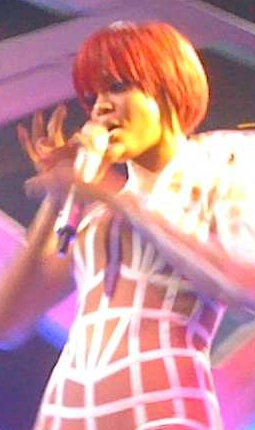 View Slideshow